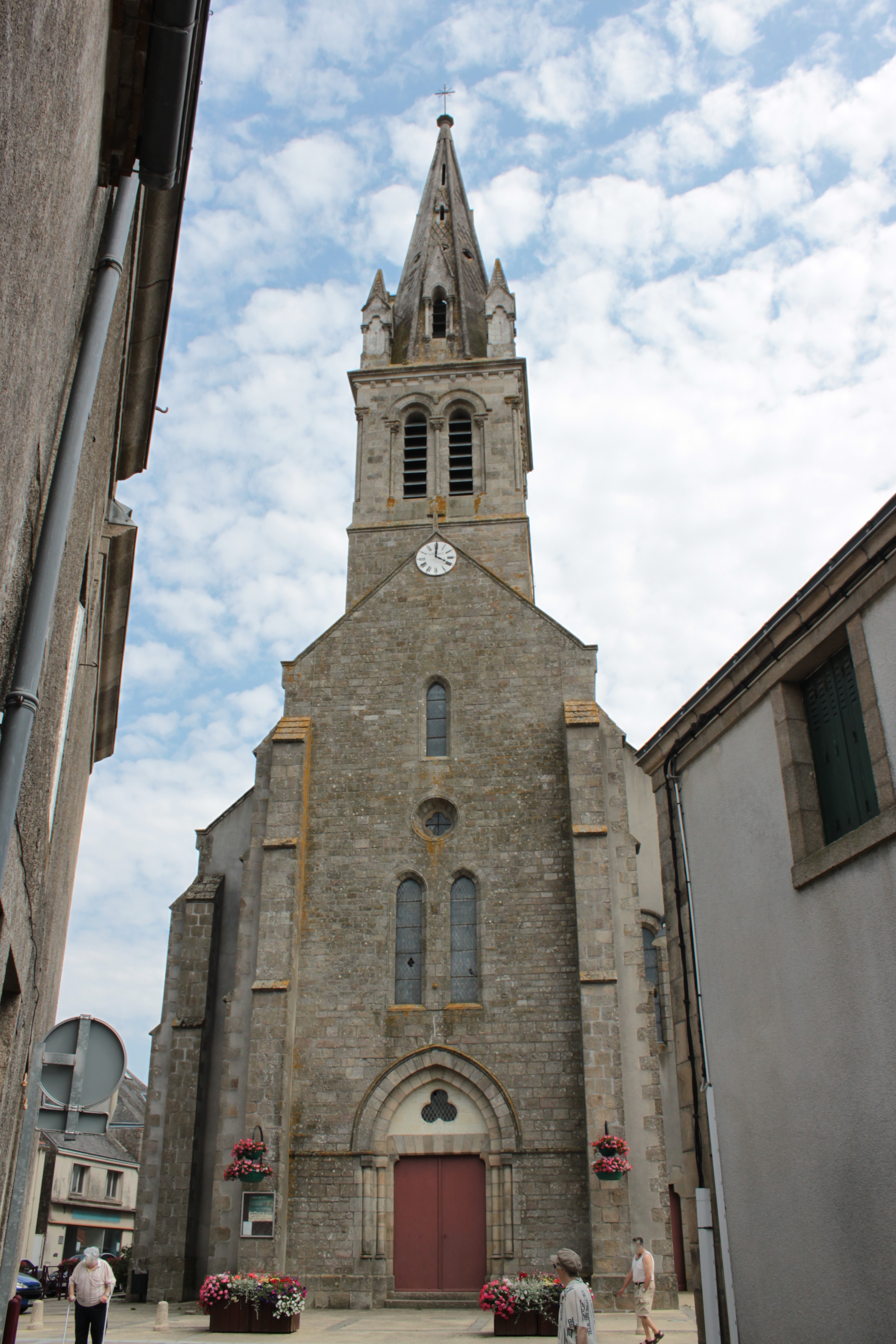 Saint-Martin church, XIX°, Fr-49-Torfou.